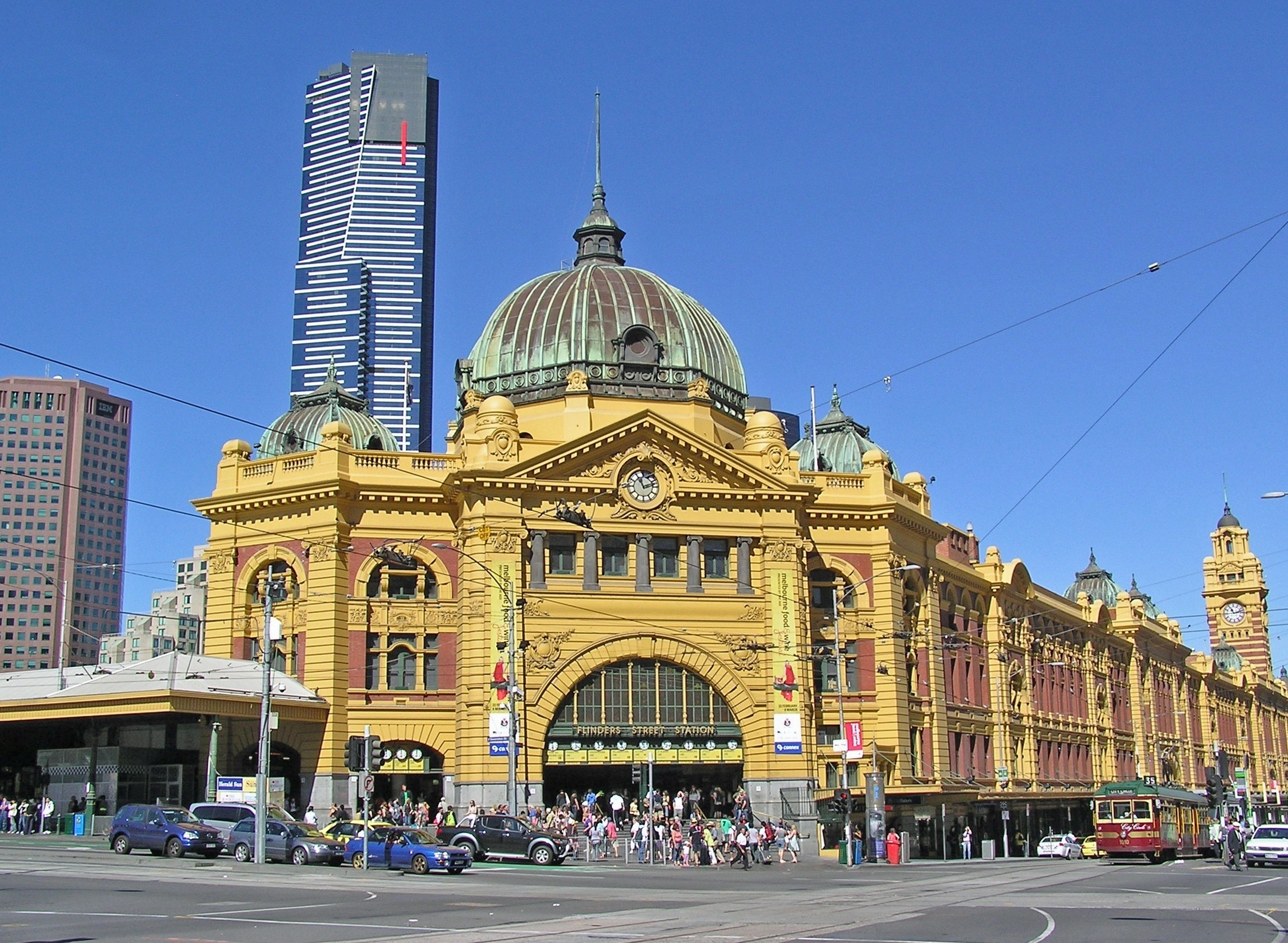 Melbourne public transport centre, Flinders Street Station